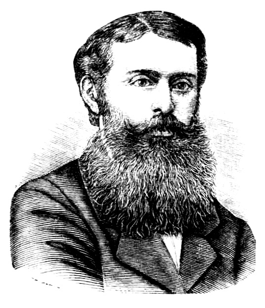 Stefanos Skouloudis (1838-1928): Greek politician